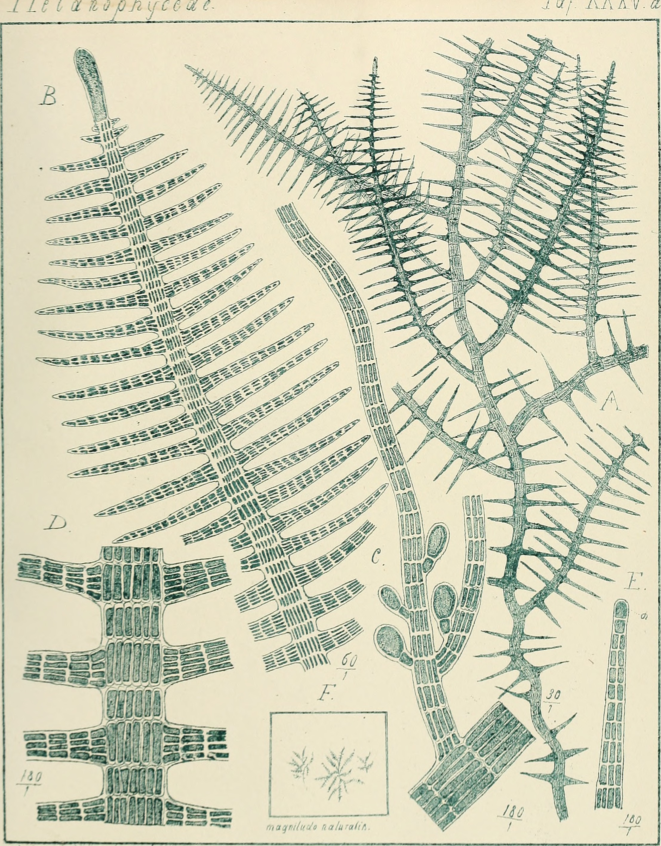 Title: Contributiones ad algologiam et fungologiam Year: 1875. (1870s) Authors: Reinsch, Paul Friedrich, 1836-1914 Subjects: Algae; Fungi Publisher: Lipsiae : T. O. Weigel Text Appearing Before Image: TTt l ato pn i laf XJ.Vf.a. Text Appearing After Image: i â i â . : ' r Spit atcelaria dcctinata